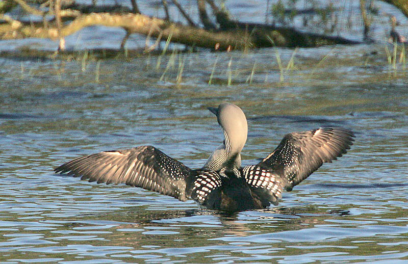 These beautiful birds breed on large, usually remote lochs containing small well-vegetated islands which they need for breeding. Unlike Red-throated Divers they tend to feed on their breeding lochs. Like all the loons they have a beautiful haunting call. This image was taken at an undisclosed location in Central Scotland from my car window using a beanbag, 500mm IS lens with stacked 1.4x & 2x converters.